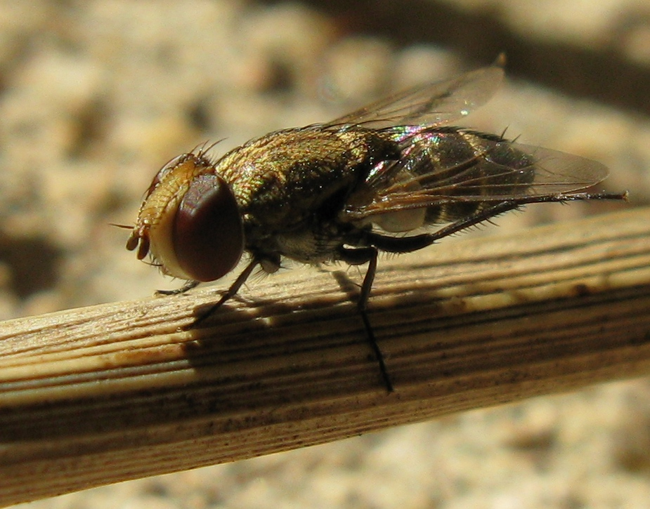 Craticulina is a genus of flies in the family Sarcophagidae, but with unusual habits for Sarcophagids; They lay their eggs (larvae actually) on the prey of certain hunting wasps, usually fly-hunters, but this species parasitises a South African Bee-pirate (Philanthus diadema?). The fly is much smaller than the wasp, about 5mm long.